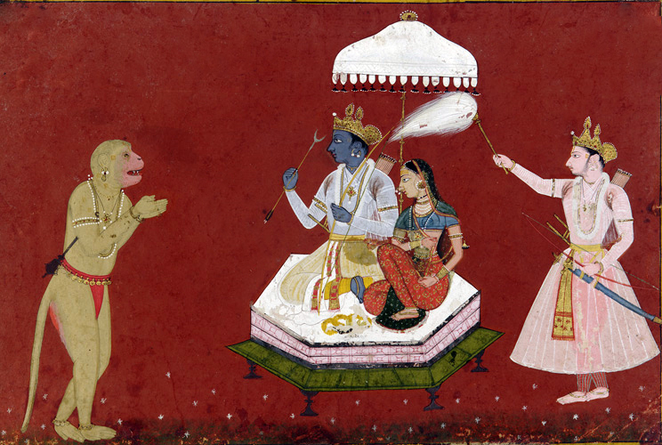 A 17th century painting depicting Hanuman worshiping Lord Rama and his wife Sita. Lakshmana is also seen in this painting from Smithsonian Institution collection.